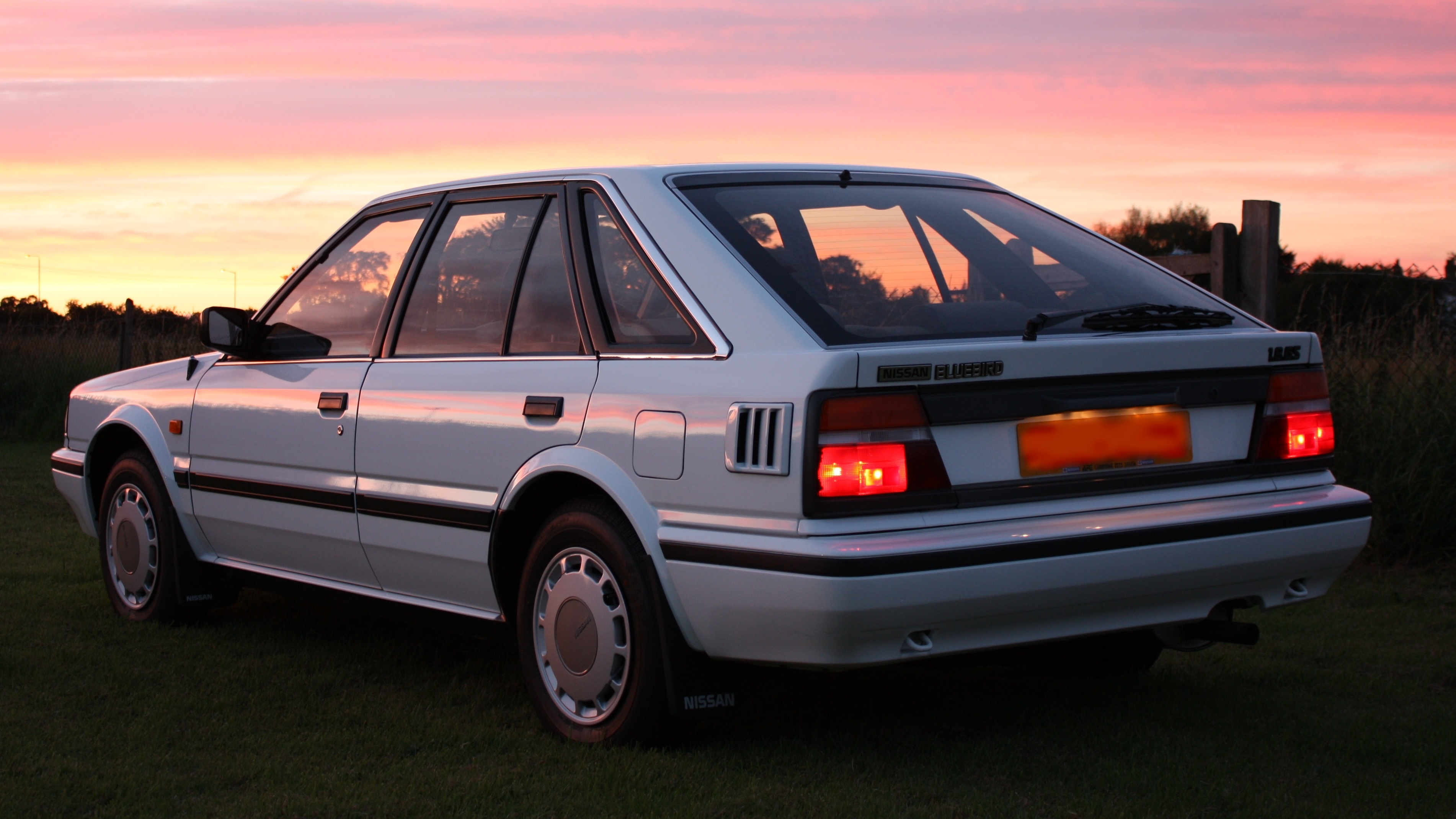 Nissan_Bluebird_T72_1.8GS_Hatchback